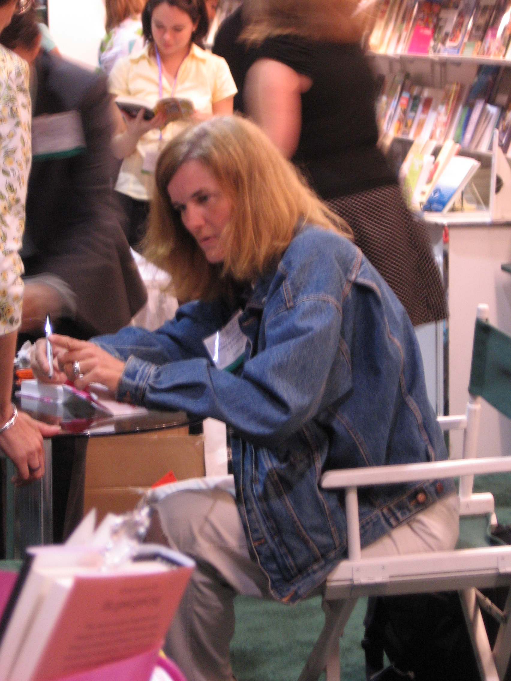 American comic Paula Poundstone.